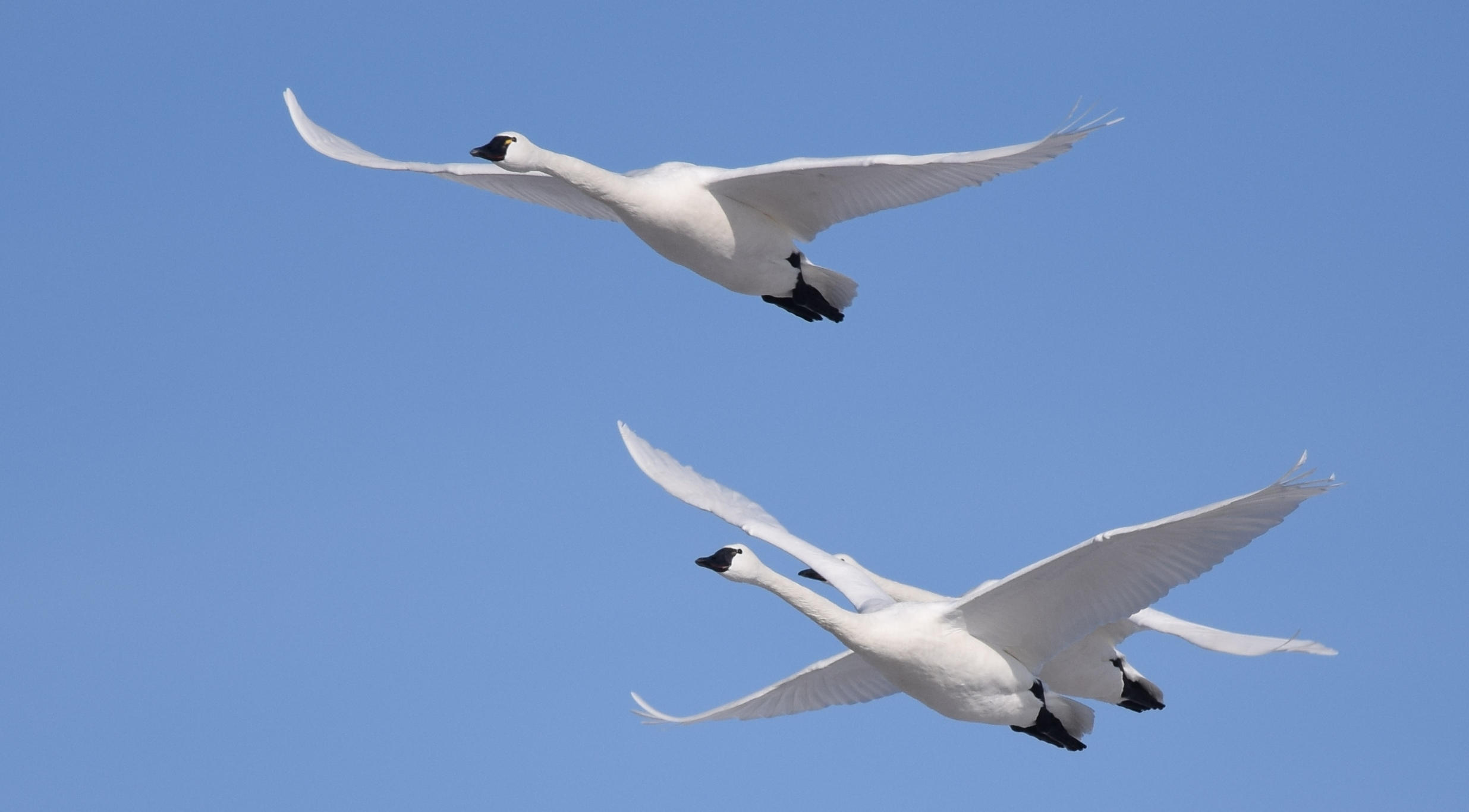 Riverlands Migratory Bird Sanctuary 1/23/16